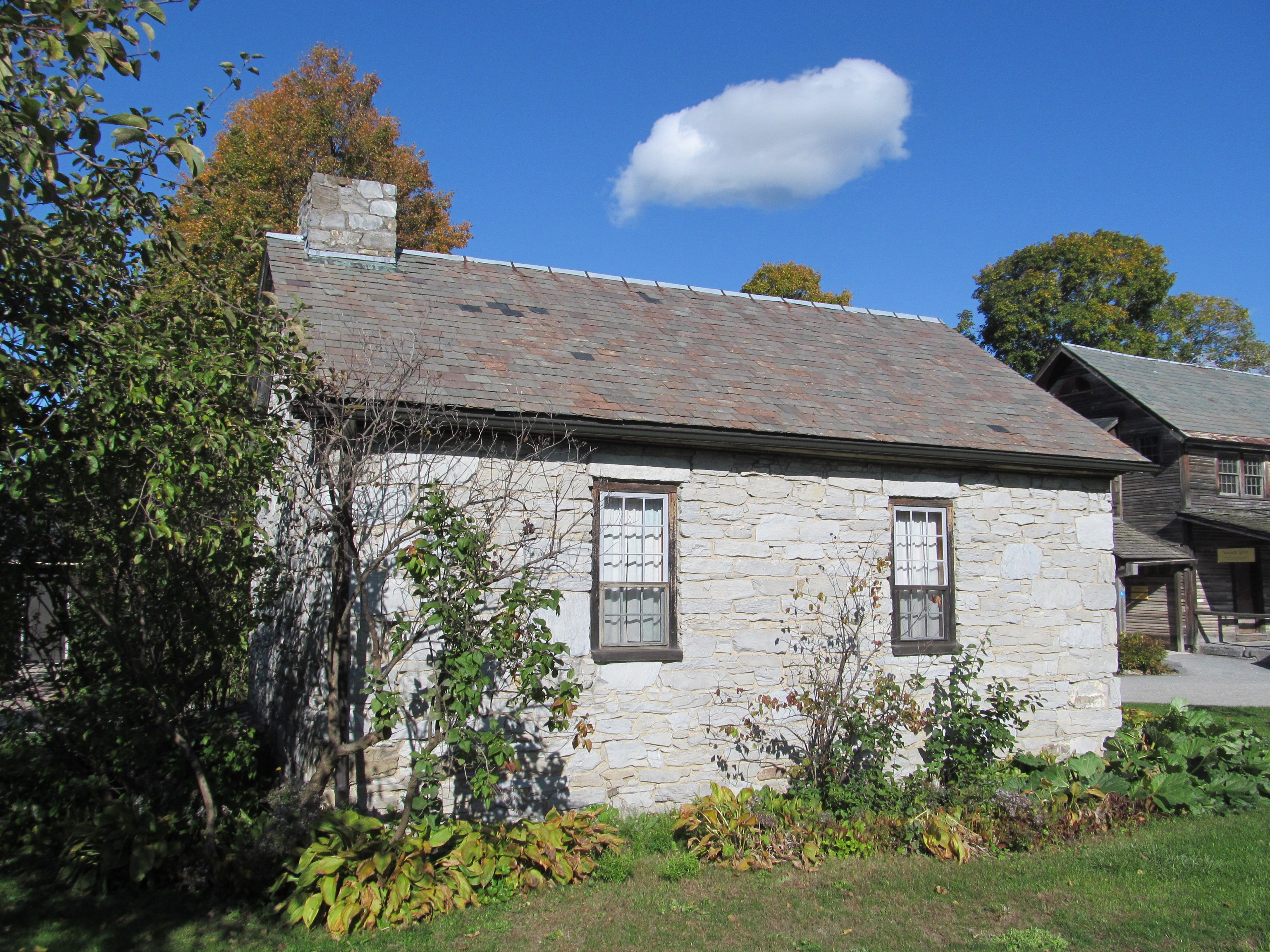 Stone Cottage, Shelburne Museum, Shelburne Vermont